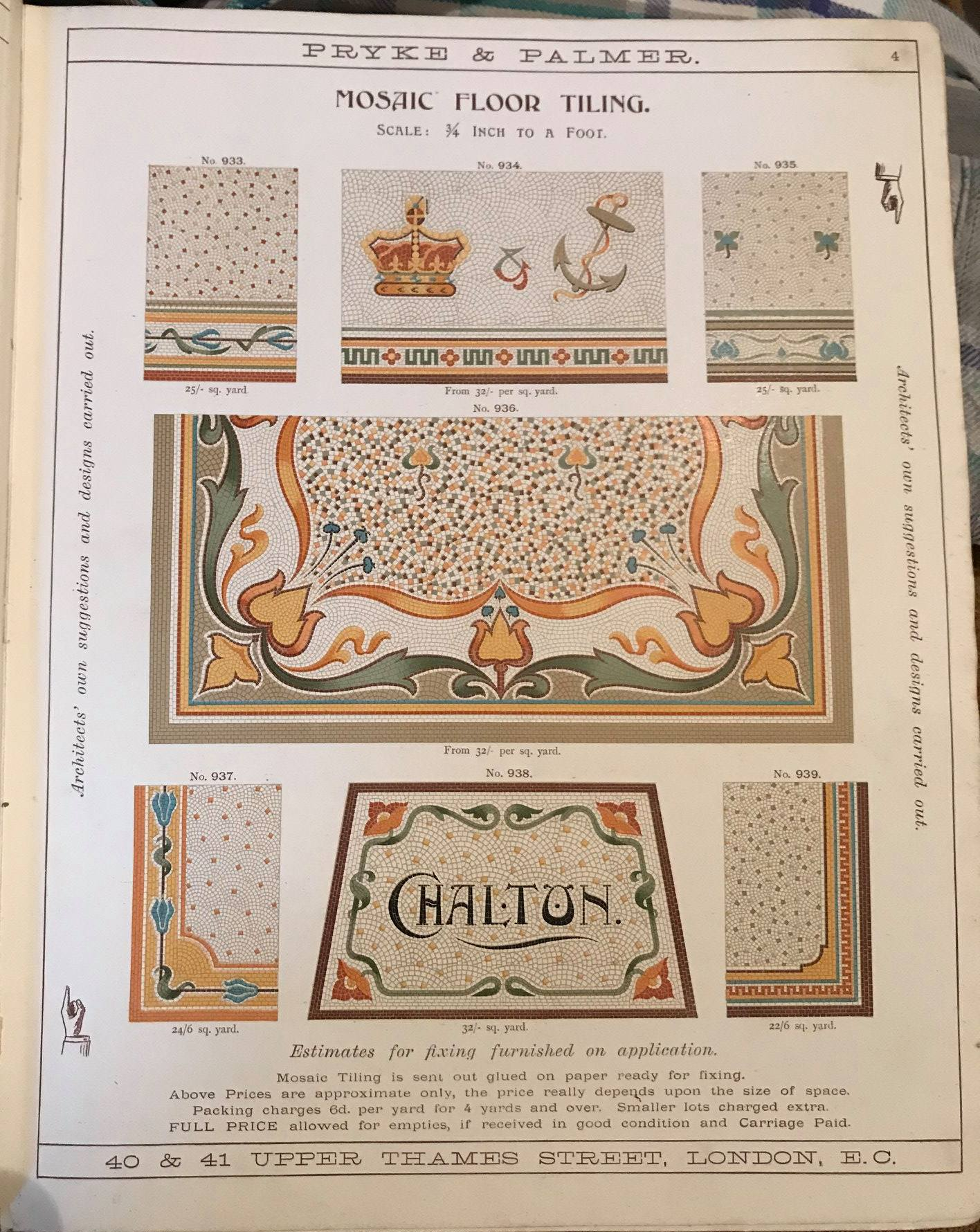 Advert for mosaic floor tiles (for shop doorsteps) in the Pryke & Palmer Ltd catalogue.